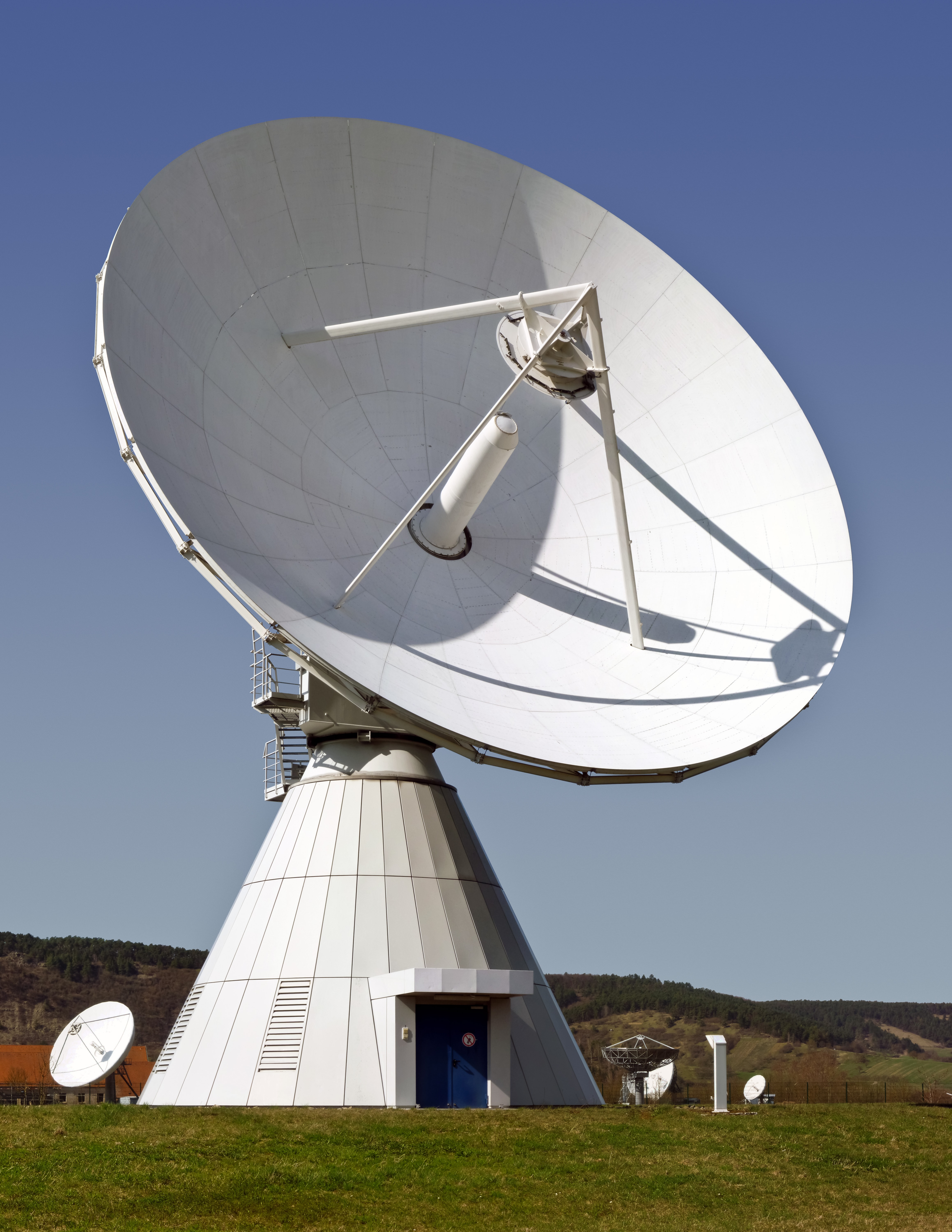 Antenna array 3 of the earth station Fuchsstadt, Germany. The earth station with its around 50 parabolic antennas is part of one of the world's largest satellite communications systems, operated by Intelsat, a US-American company. Antenna array 3, one out of a total of four, consists of one antenna with a diameter of 18 m from 1991.